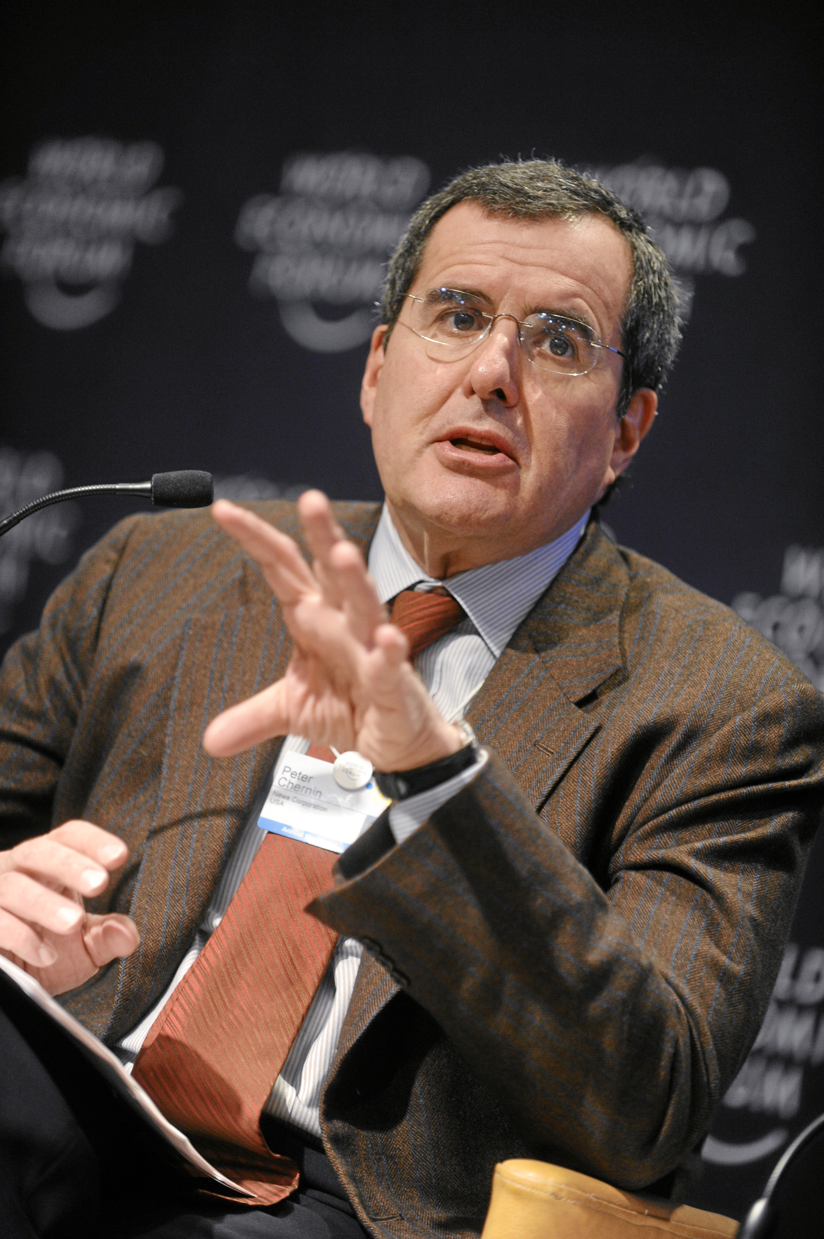 DAVOS-KLOSTERS/SWITZERLAND, 31JAN09 - Peter Chernin, President and Chief Operating Officer, News Corporation, USA, gestures during the session 'Completing the Malaria Mission' at the Annual Meeting 2009 of the World Economic Forum in Davos, Switzerland, January 31, 2009. Copyright by World Economic Forum by Michael Wuertenberg